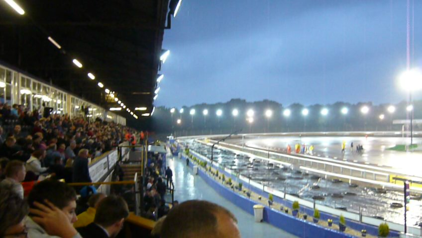 Coventry Stadium in Brandon, Coventry, UK – home of the Coventry Bees speedway team.